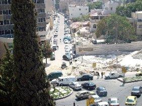 The 1st Circle is the first of a series of eight large traffic circles interspersed east-to-west on Zahran Street in in Amman, Jordan